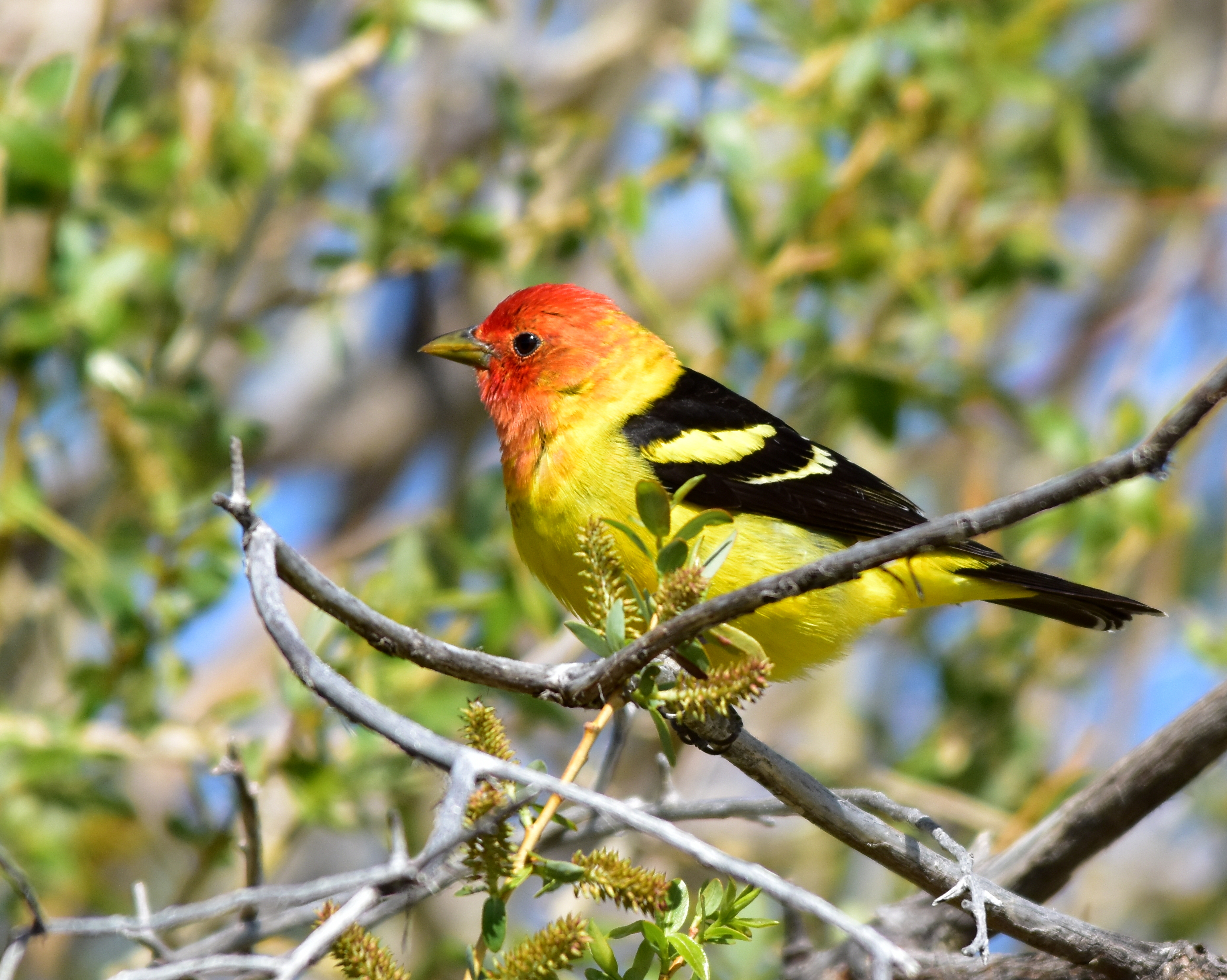 A flame with wings is a good description for a male western tanager. Western tanagers migrate through Seedskadee NWR in late May and early June each year. They are headed to mixed coniferous-deciduous woodlands to the north and west of Seedskadee NWR. Photo: Male western tanager on Seedskadee NWR. Tom Koerner/USFWS